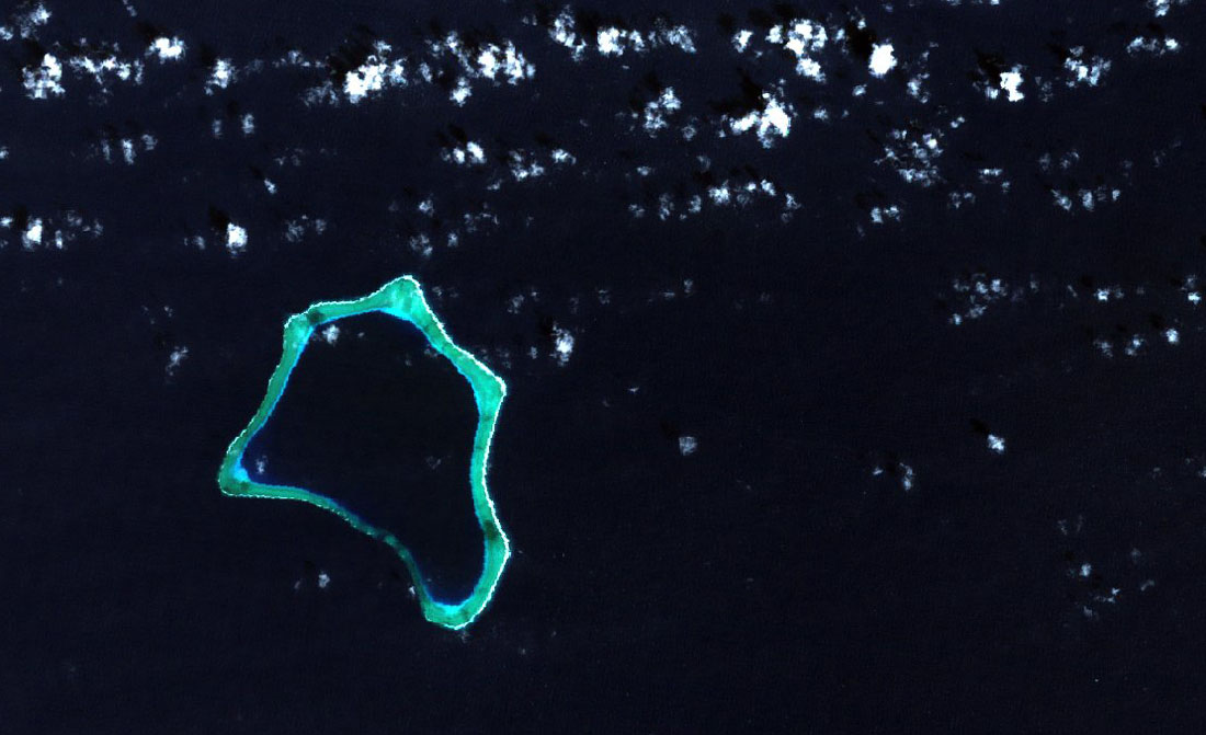 Landsat 7 image of Minto Reef, Caroline Islands, Pacific Ocean